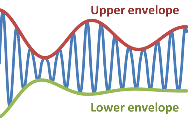 Upper and lower envelopes of a modulated sine wave. Imported from Citizendium